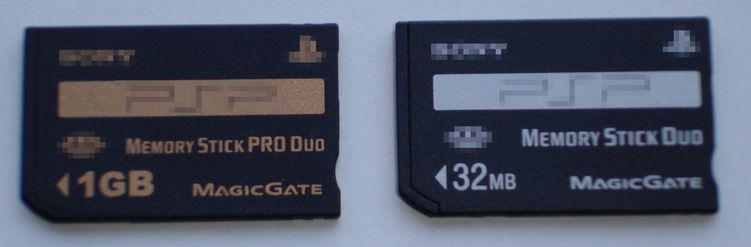 Memory Stick PRO Duo(32MB&1GB) of PlayStation Portable accessories. The mosaic of the logo of Sony, Memory Stick and PlayStation has been processed.